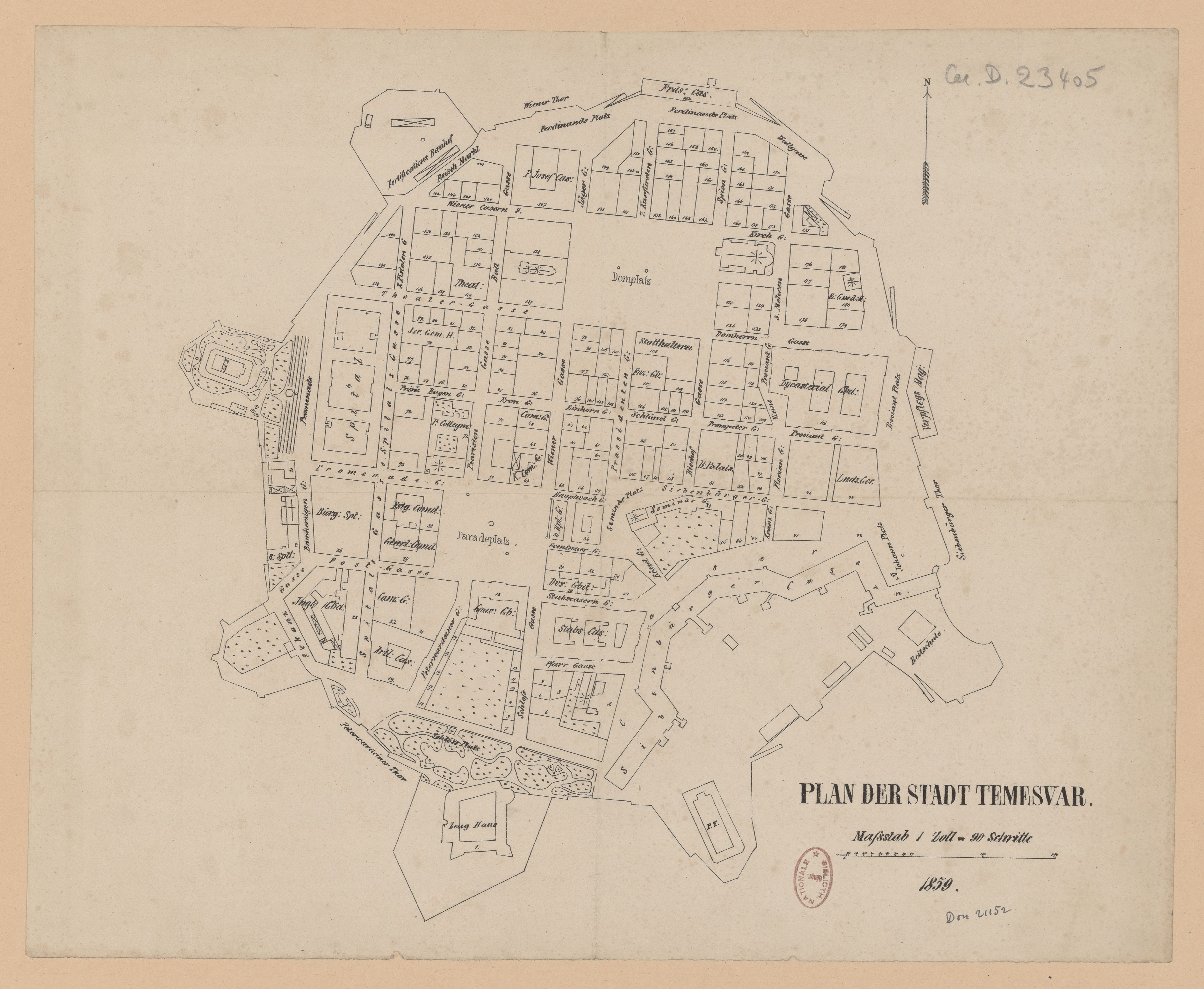 Fortres of Timisoara in 1859